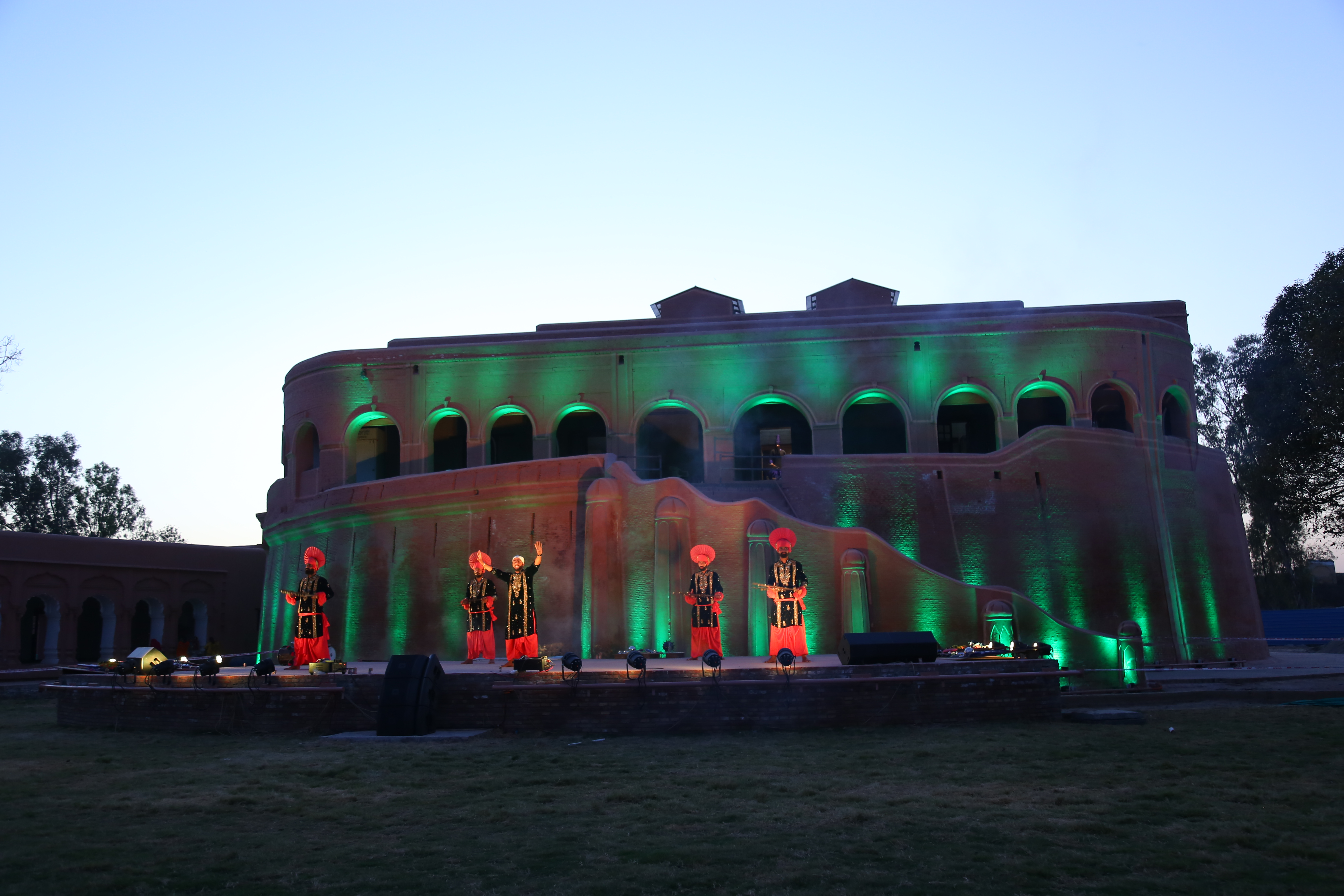 A stage that keeps the fort alive all day long with live performances of bhangra, gatka, gidda, comedy, games, dholi etc. Several prizes are here to be won each day.